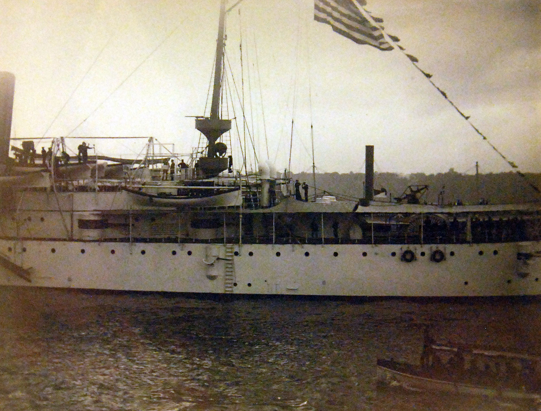 Lot 5052-3: Admiral George Dewey’s Return From Manila to New York Harbor, New York, September 29, 1899. Shown: Admiral Dewey reviewing parade onboard U.S. Navy protected cruiser, USS Olympia (Cruiser #6). Courtesy of the Library of Congress. (2016/04/29). Photographed through Mylar sleeve.